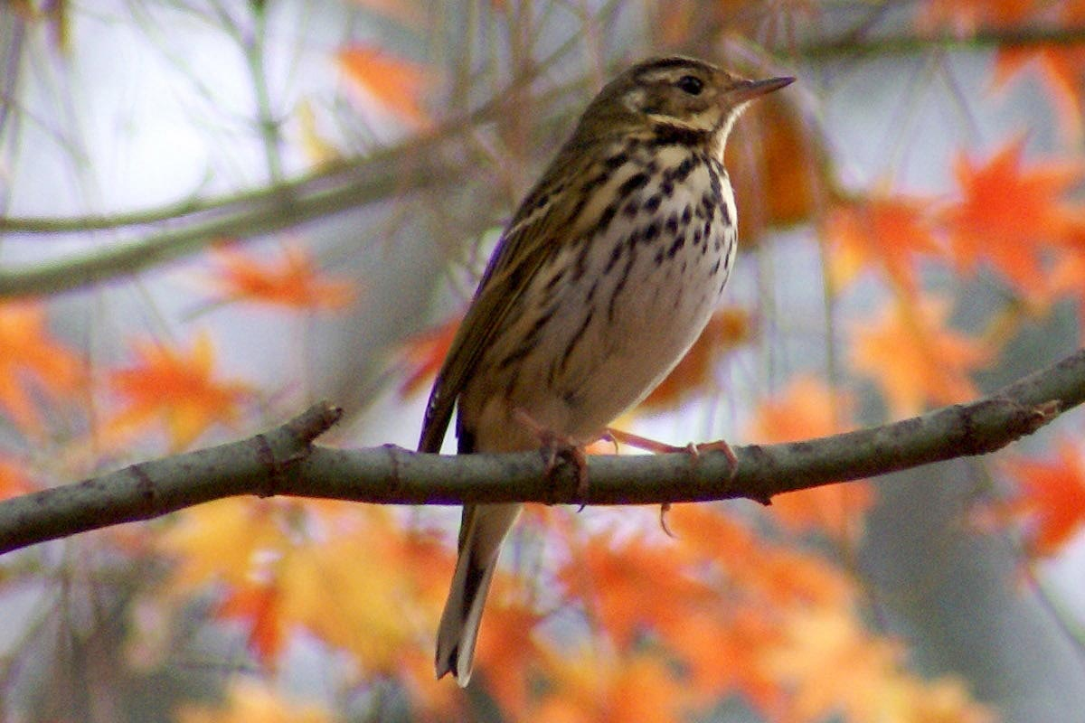 Anthus hodgsoni